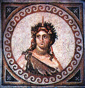 A mosaic from Antakya representing Dionysos